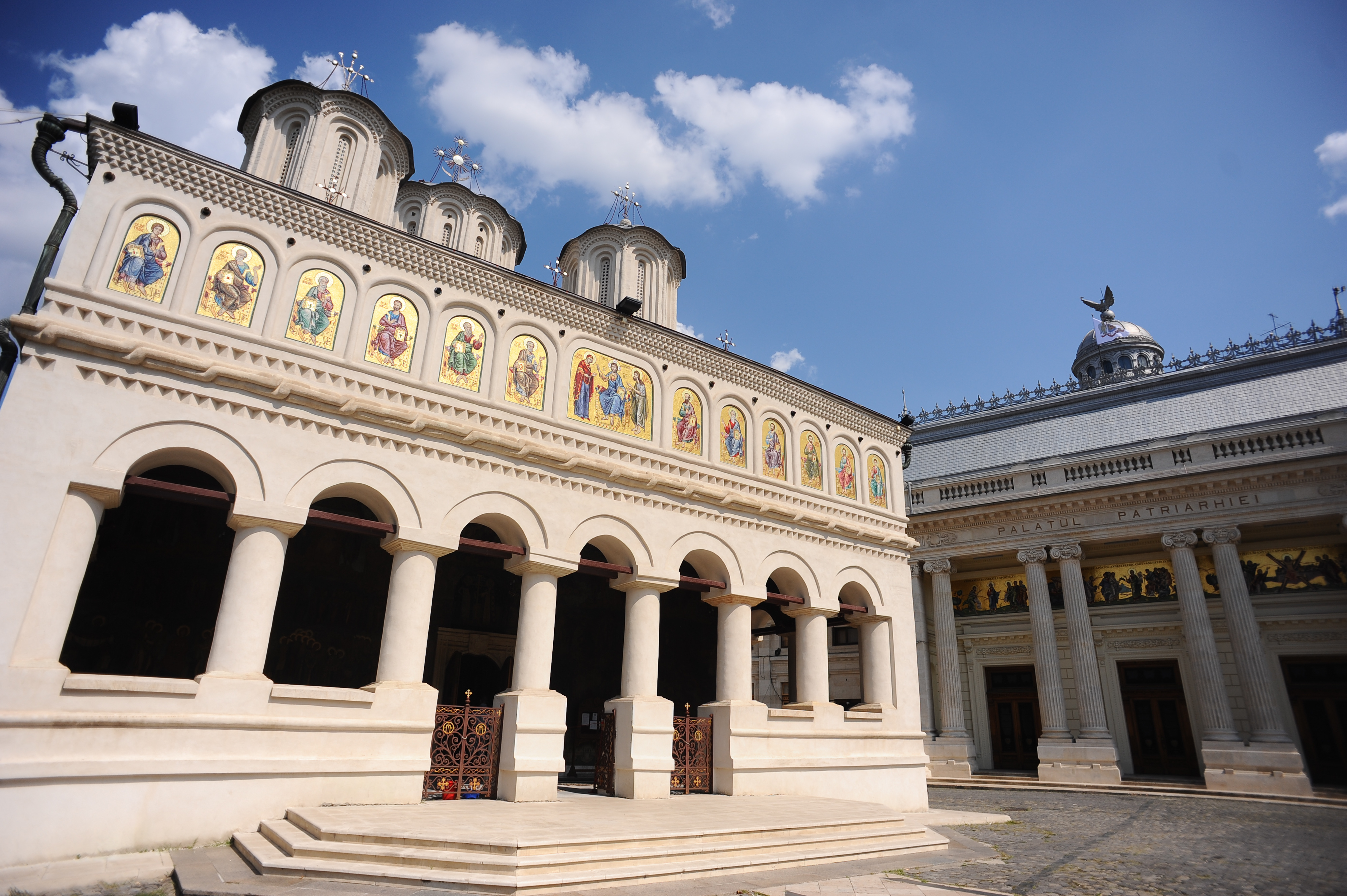 Romanian Patriarchal Cathedral, The Patriarchal Palace. Bucharest, Roamnia, Southeastern Europe.